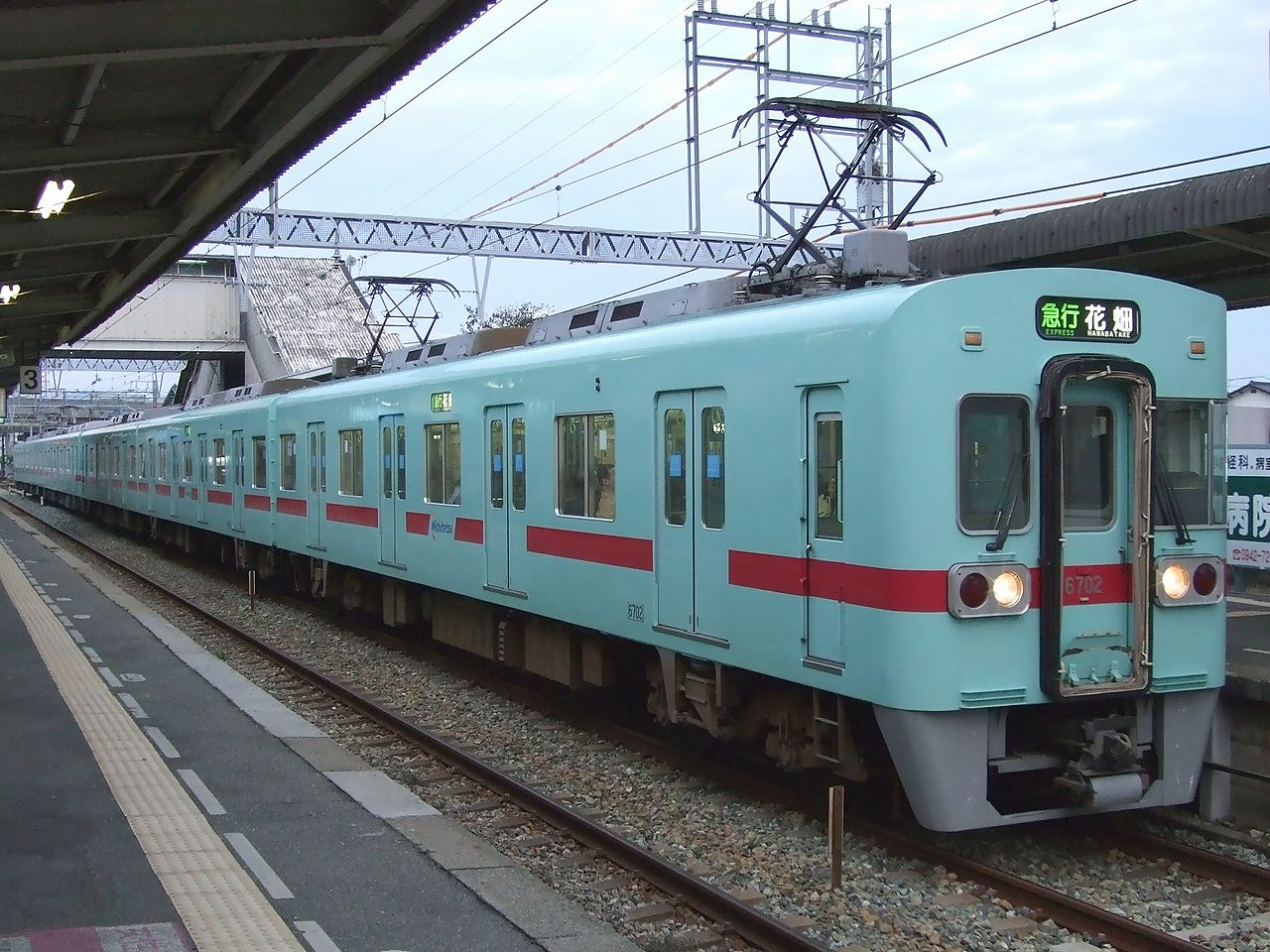 Nishi Nippon Railroad EMU Type6000. Nishitetsu Ogori Station, Ogori, Fukuoka, Japan. Formation:6702-6902-6802-6157-6357-6557